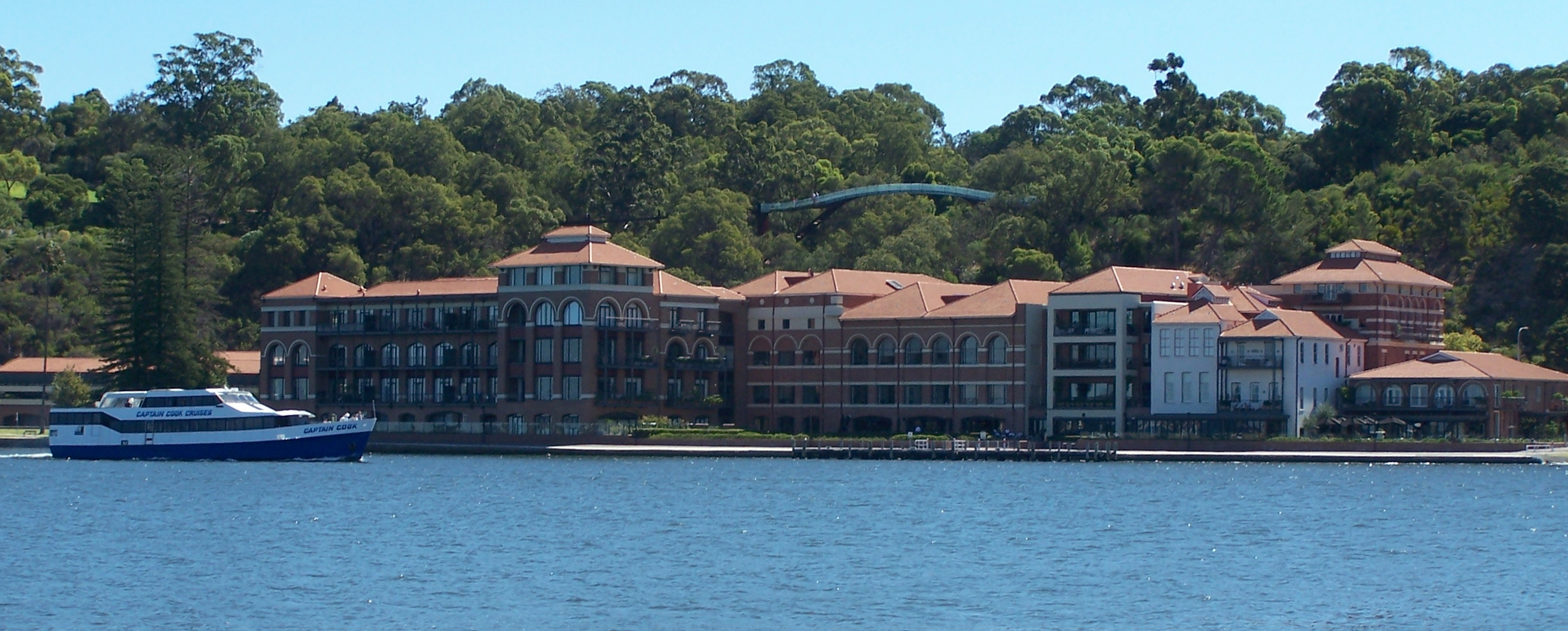 The old Swan Brewery view from the narrows with Kings Park raise walkway behind